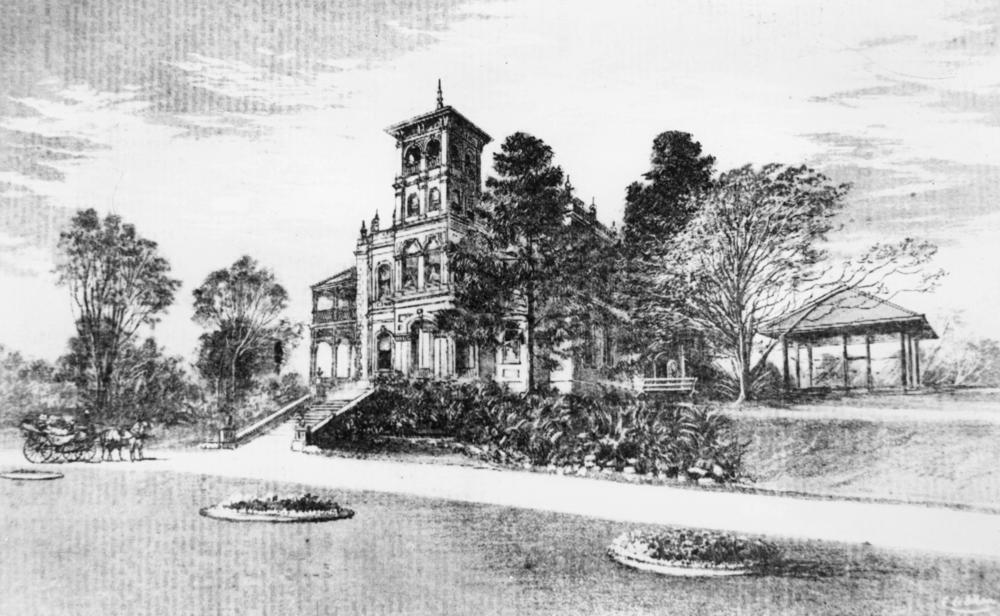 Drawing of Fernberg house, 1891 in Paddington, Brisbane. It was erected in 1864/65 by Johann Heussler, a Brisbane merchant and later a member of parliament.